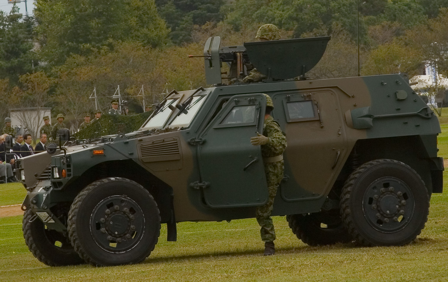 A Komatsu LAV on display at the JGSDF Ordnance School in Tsuchiura, Kanto, Japan.